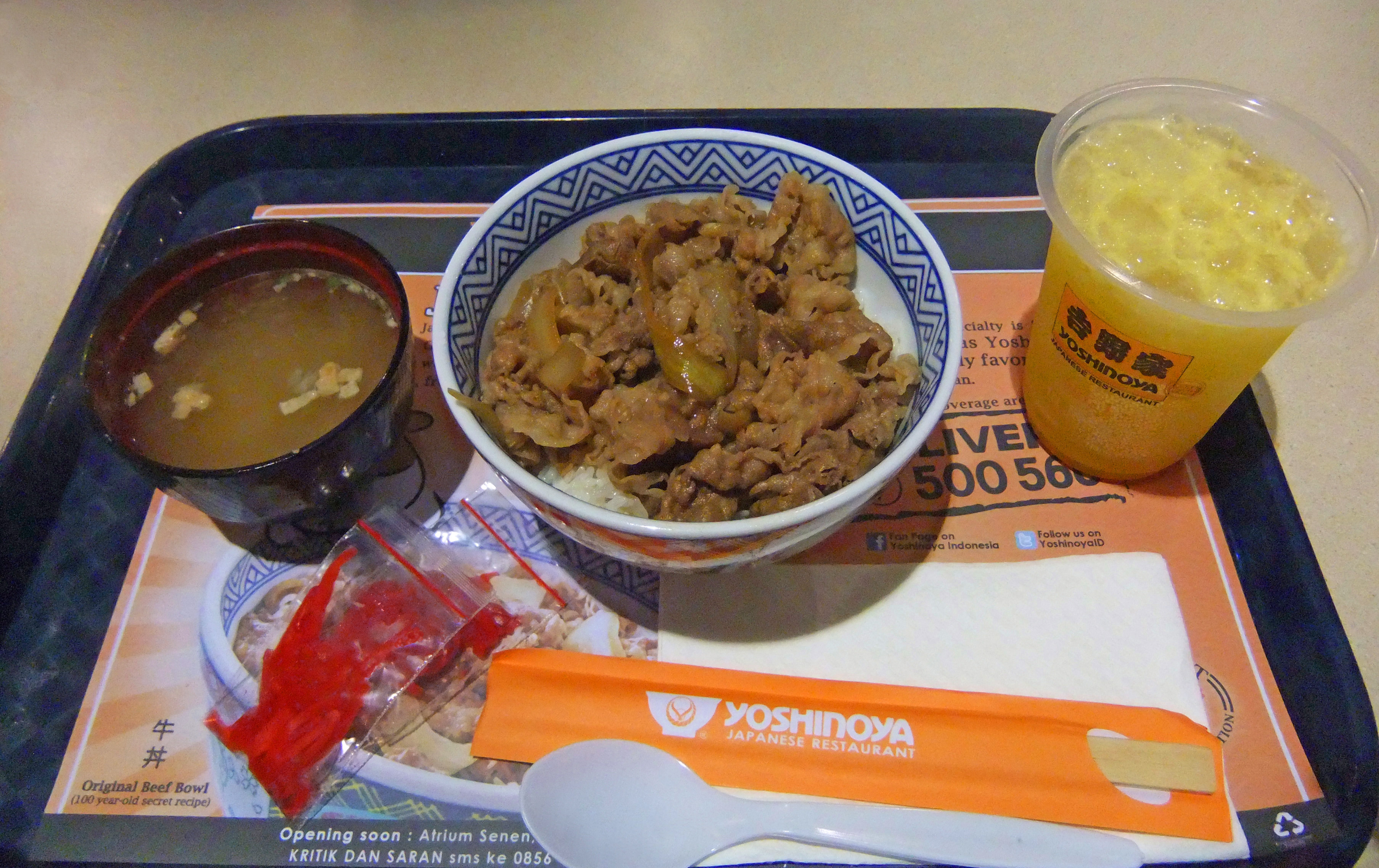 Yoshinoya's original beef bowl in Jakarta